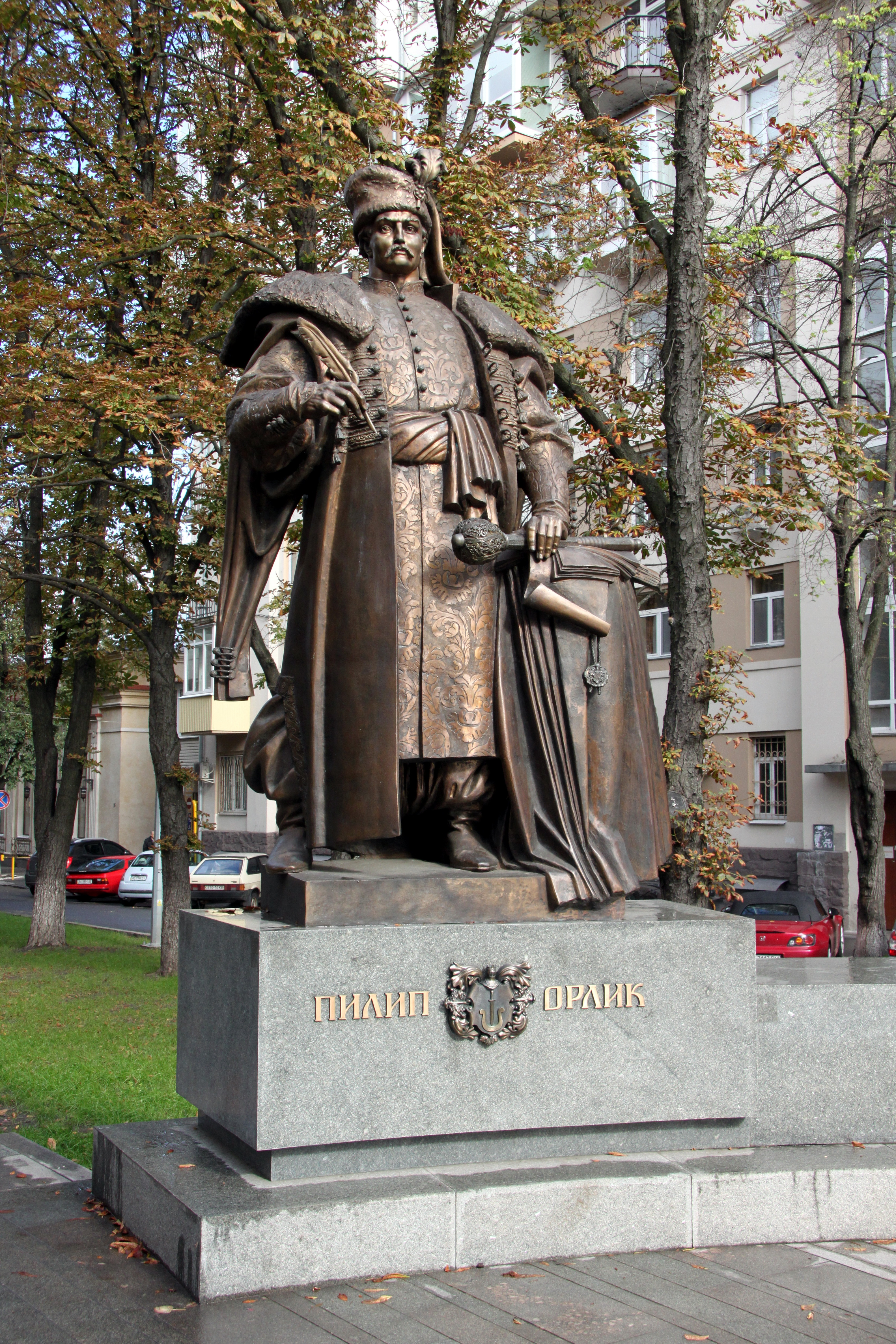 House